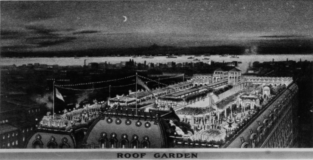 Historic view of the rooftop garden of the Astor Hotel, Times Square, New York. Poster, c. 1904. Image courtesy of Historic American Buildings Survey—HABS.